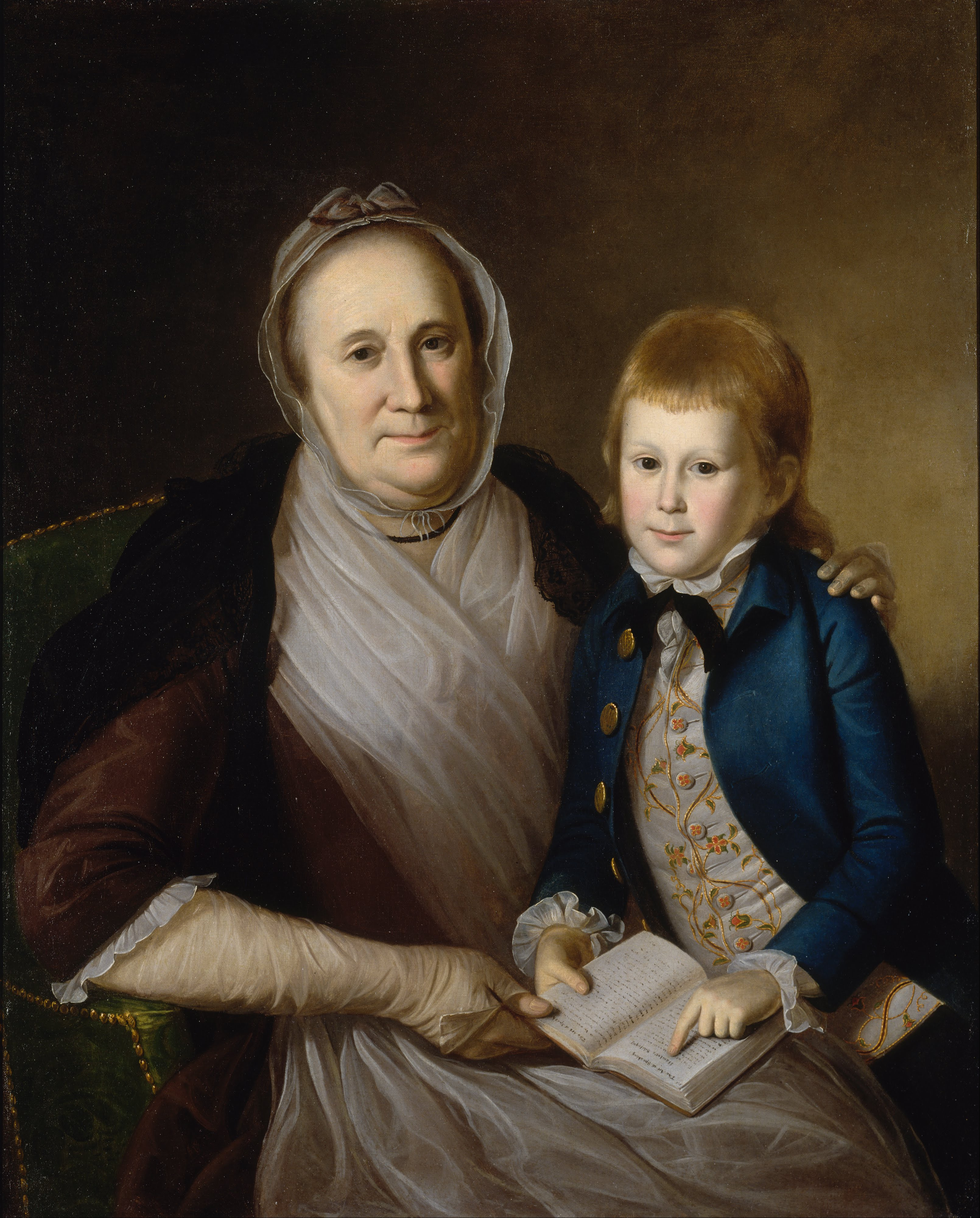 According to the Smithsonian's research notes, this painting depicts the mother Mary and son Campbell of the U.S. Congressman William Smith from Maryland who served beginning in 1789.